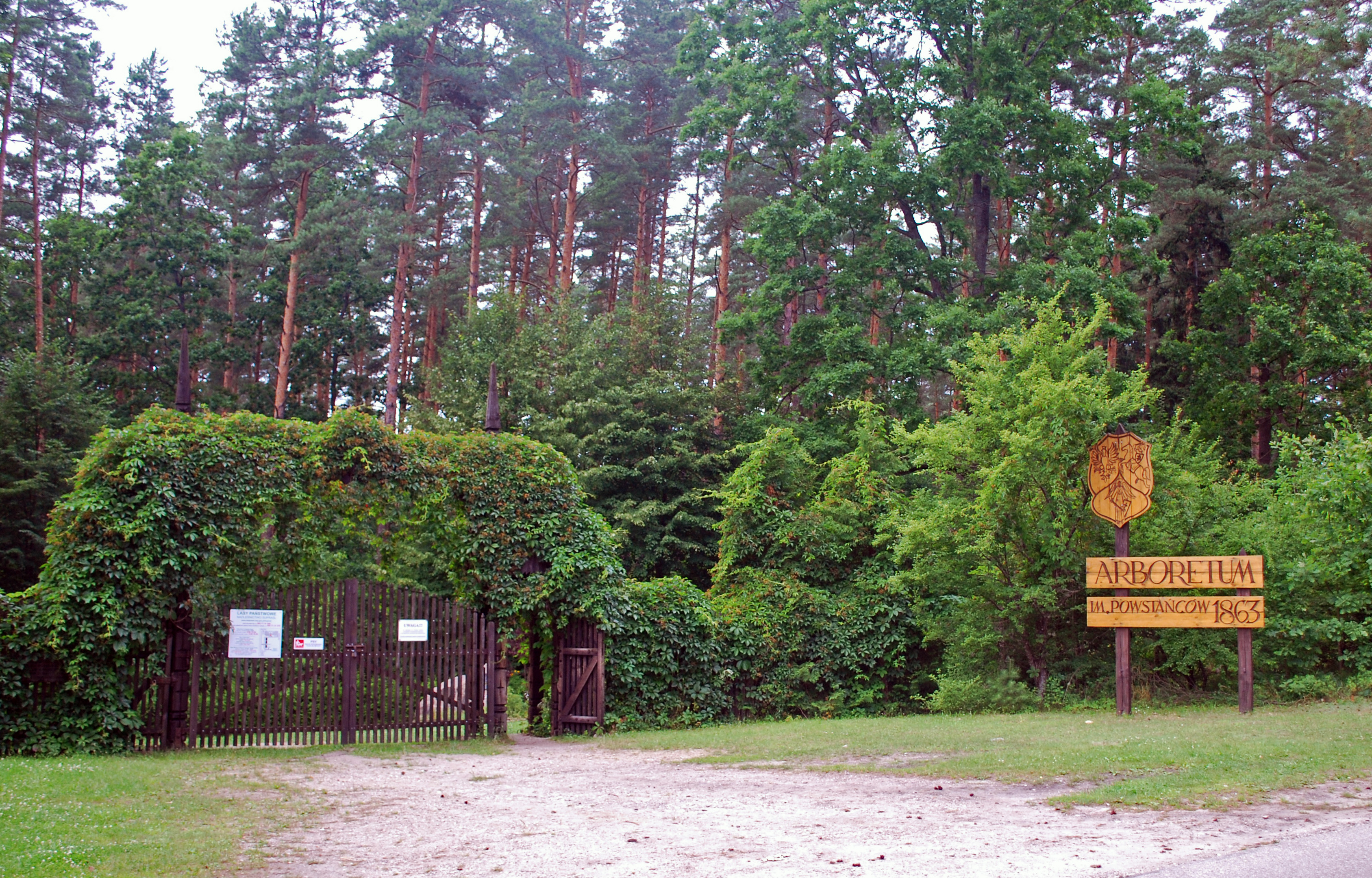 This photo from Podlaskie Voievodeship was taken during Polish Wikiexpedition 2009 set up by Wikimedia Polska Association. The making of this document was supported by Wikimedia Polska. Arboretum w Kopnej Górze.